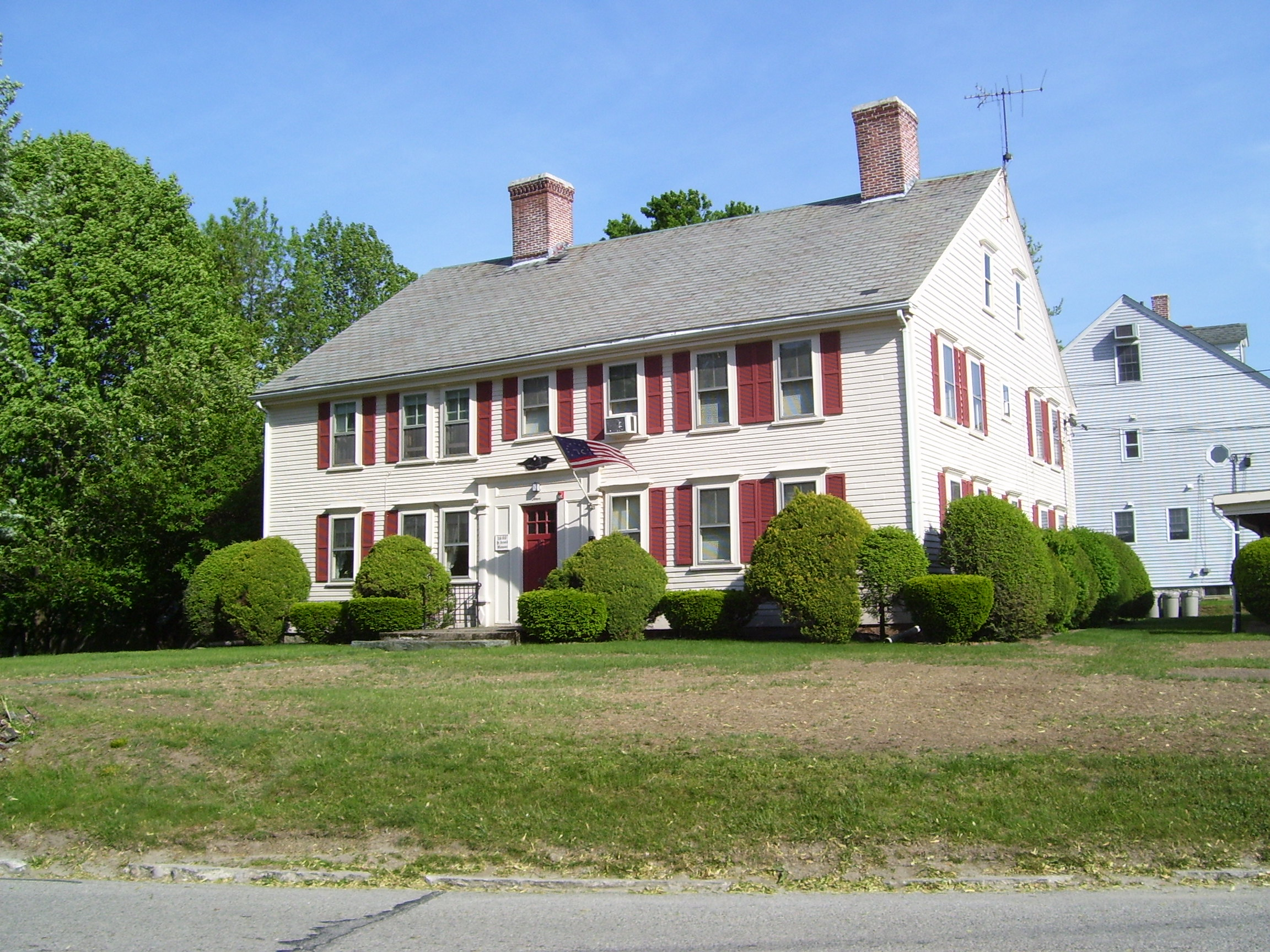 My 2008 photo of the Peleg Arnold Tavern in North Smithfield, RI.